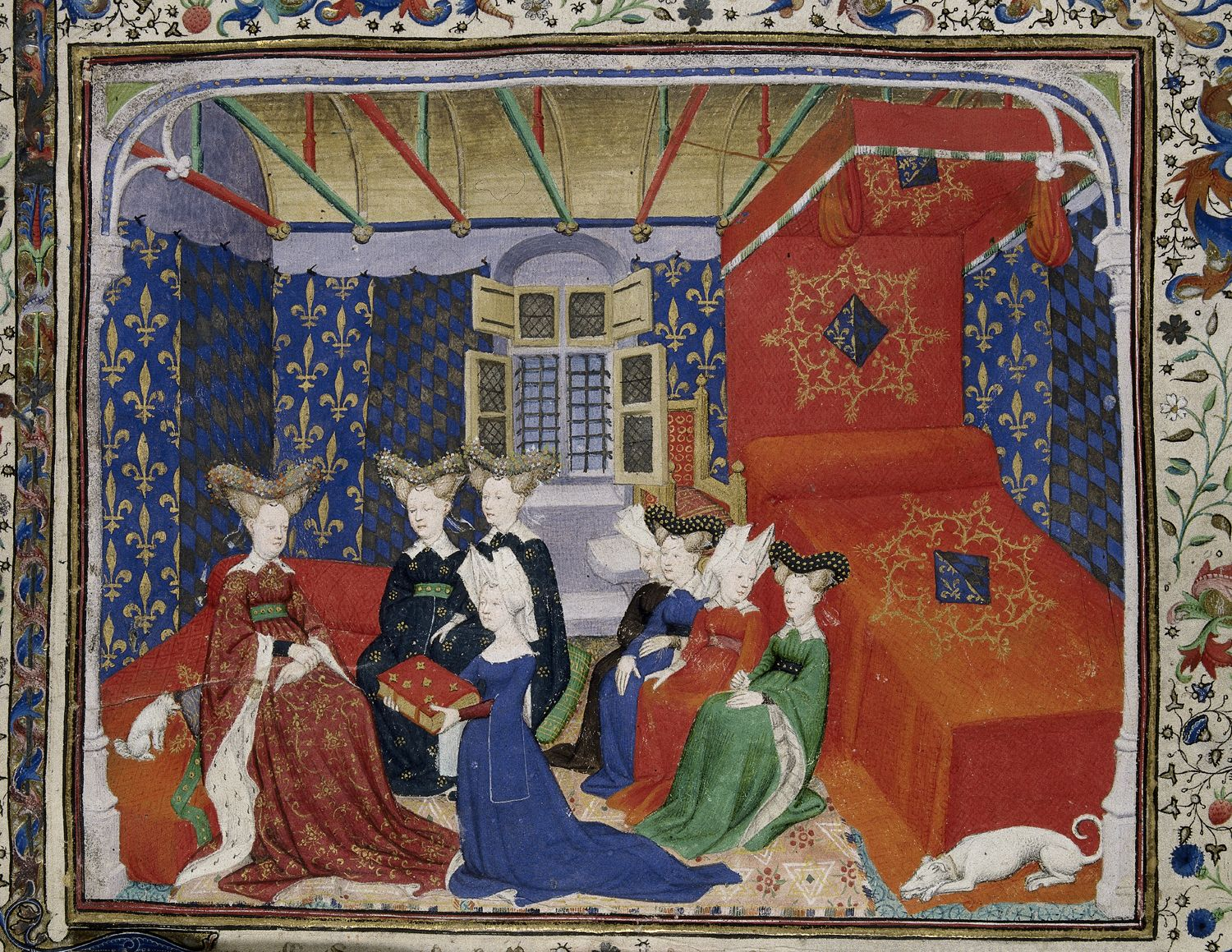 Detail of a presentation miniature with Christine de Pisan presenting her book to queen Isabeau of Bavaria. Illuminated miniature from The Book of the Queen (various works by Christine de Pizan), BL Harley 4431.